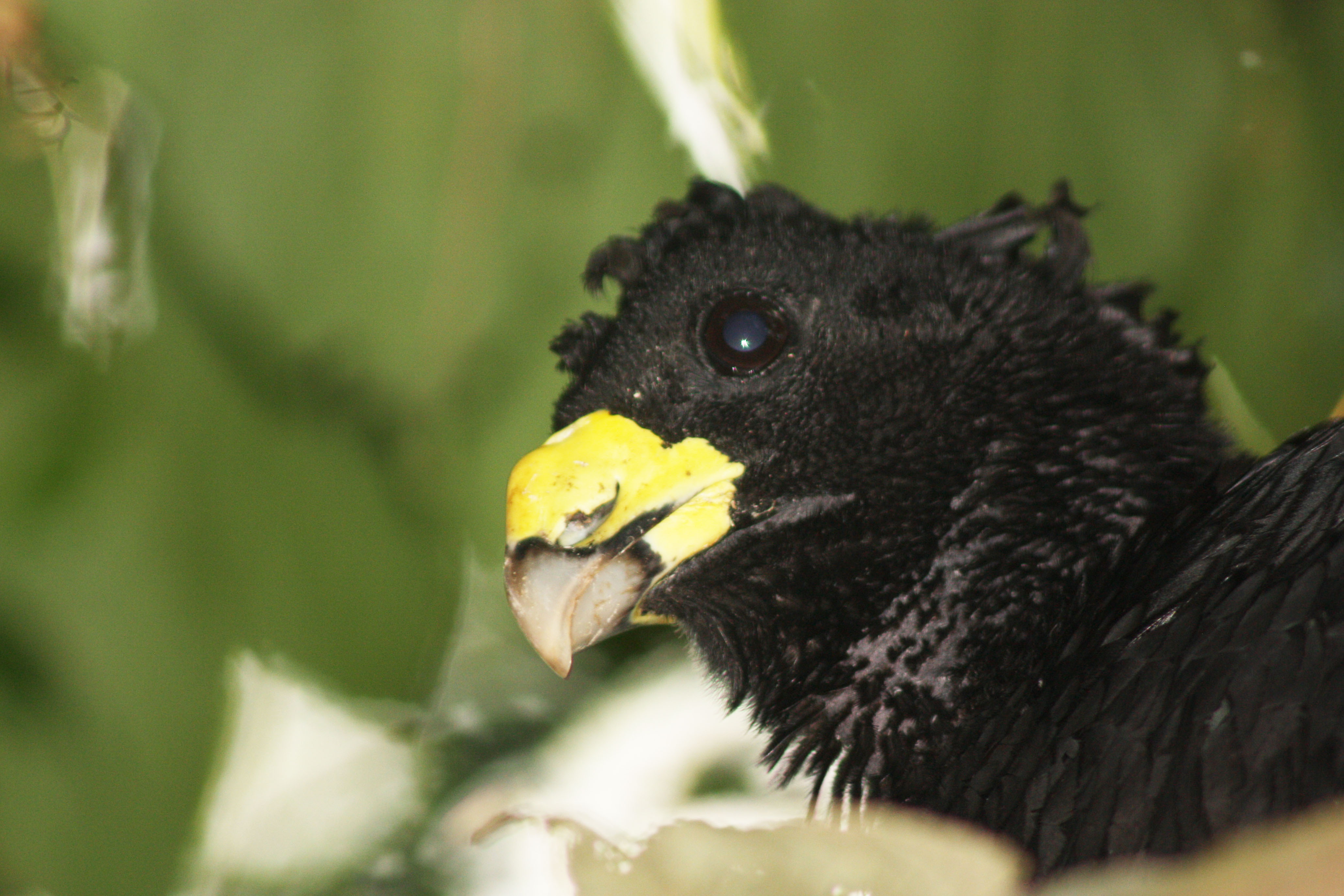 Male great curassow (Crax rubra) on the Fortuna river, Costa Rica